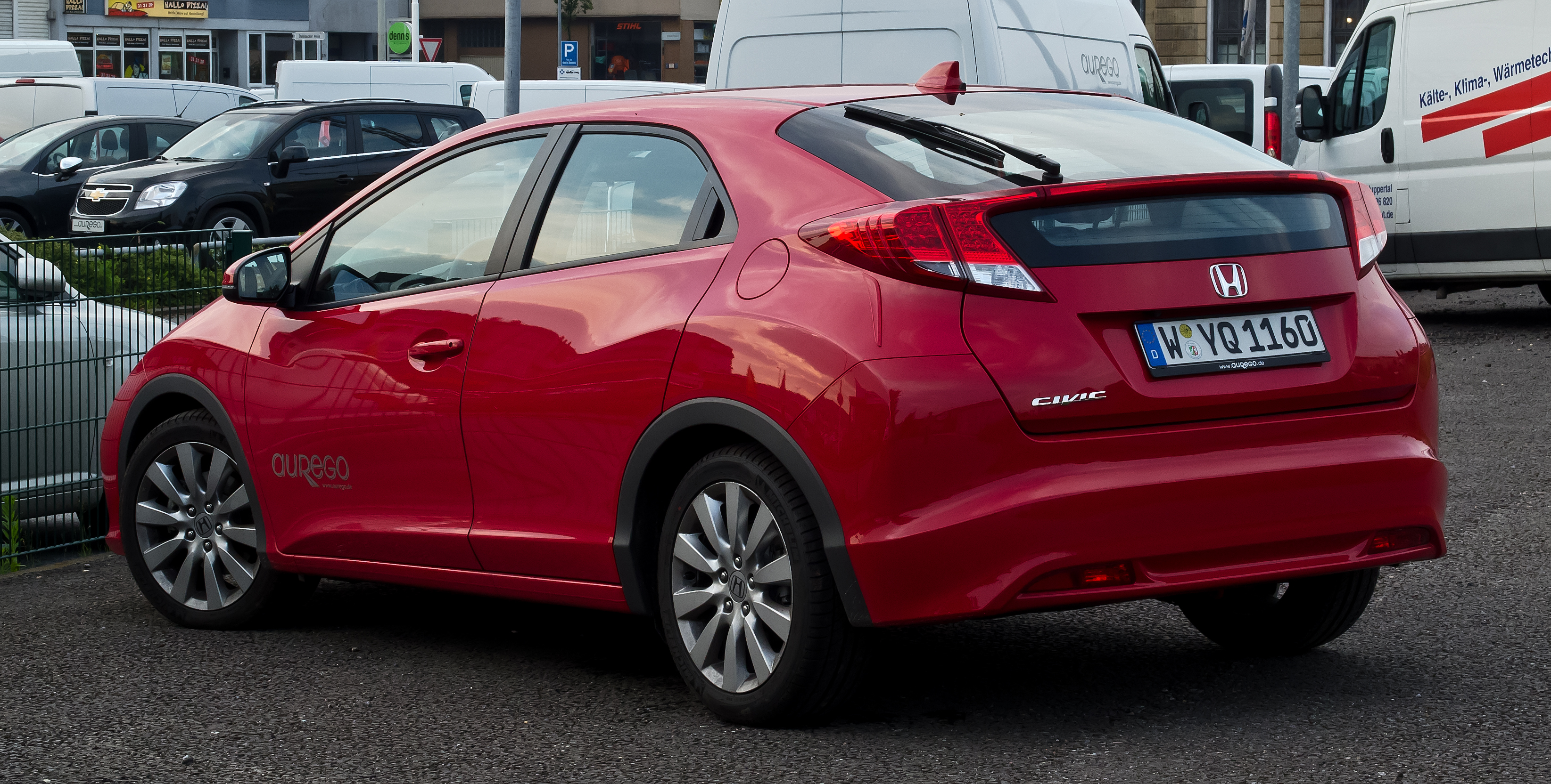 Honda Civic 2.2 i-DTEC Sport (IX)